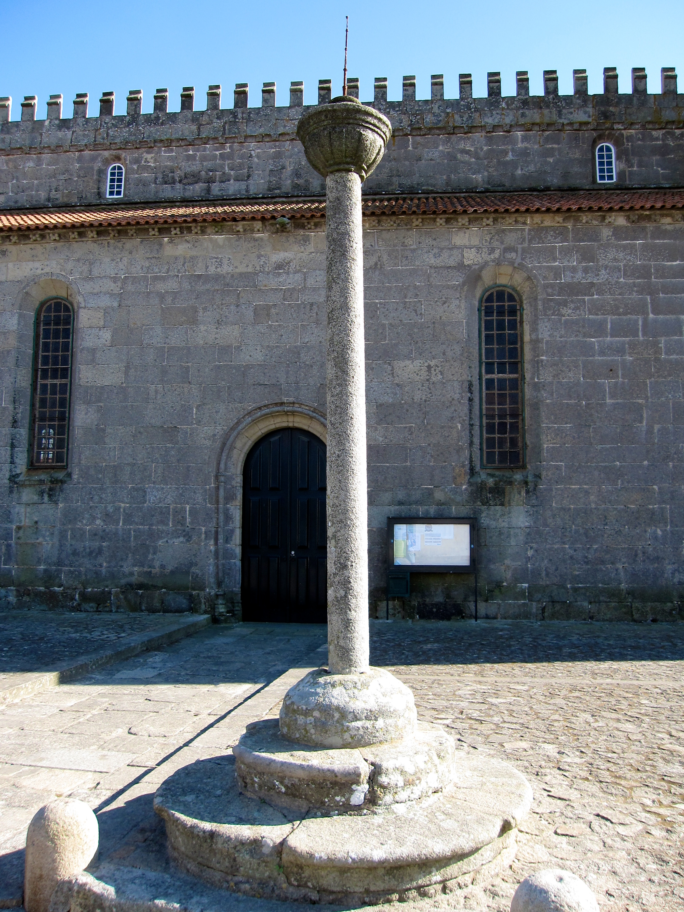 This file was uploaded for Wiki Loves Monuments in Portugal with the unique identifier 74377.